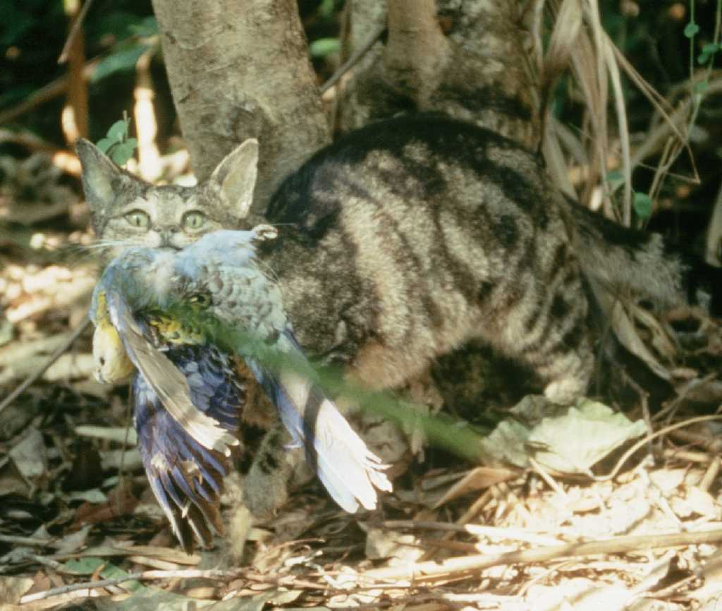 Feral cats are decendants of domesticated cats, that are wild born.